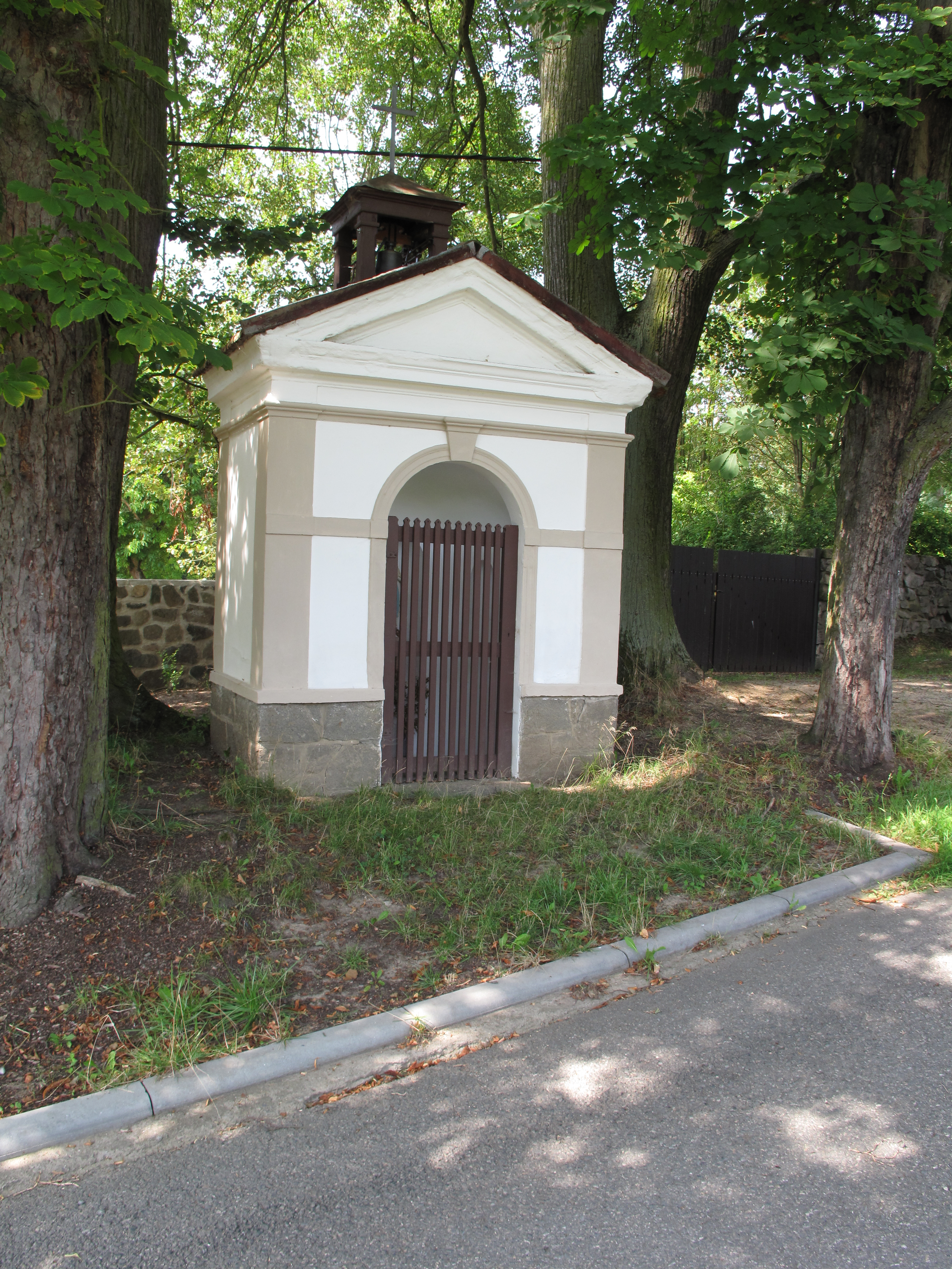 Chapel in Dubiny, Prague-East District, Czech Republic.